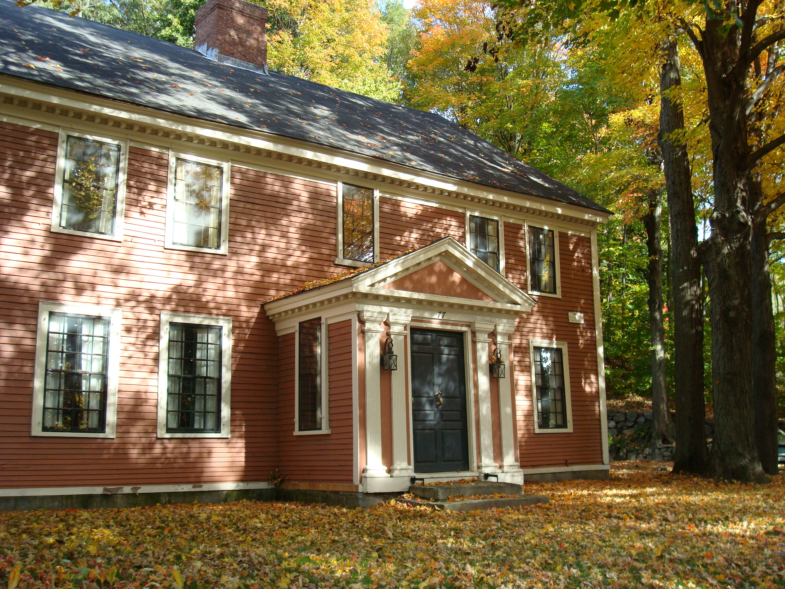 The Reuben Brown House illuminated by autumn leaves